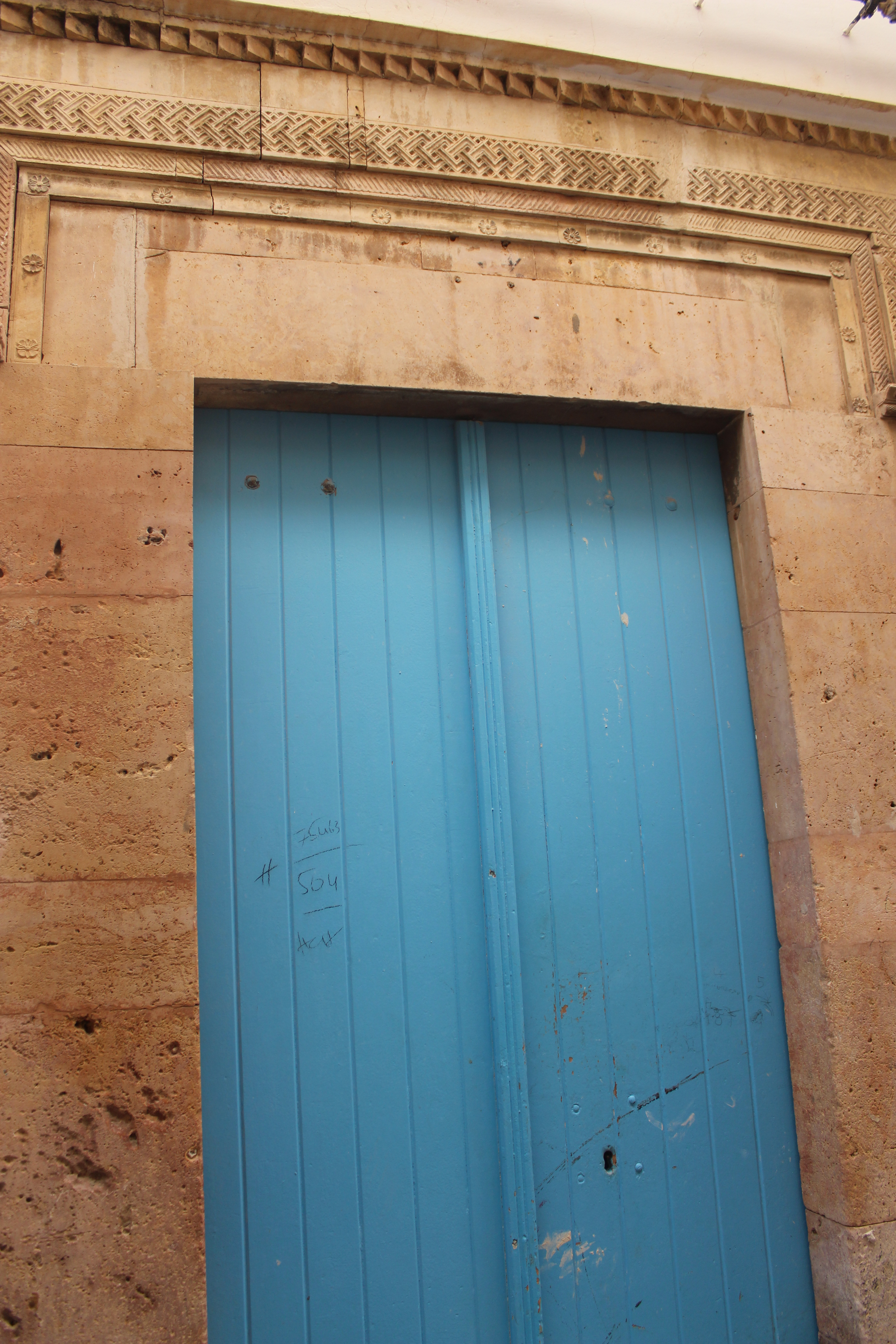 Entrance of Dar Laadhar in Sidi Cheikh Tijani in the medina of Sfax